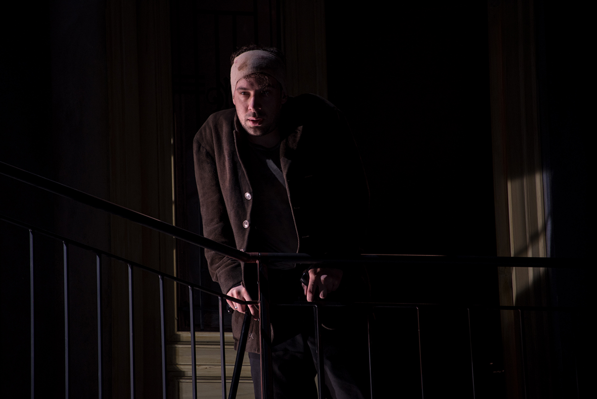 Niemand, Tragödie in 7 Bildern by Ödön von Horvath, world premiere at the Theater in der Josefstadt, Vienna, 1st of september 2016, directed by Herbert Föttinger, with Florian Teichtmeister in the main role of Fürchtegott Lehmann